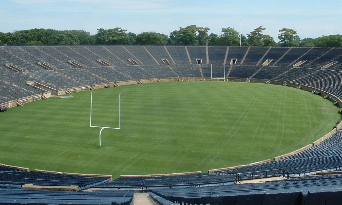 The field of the Yale Bowl from the northwest end.